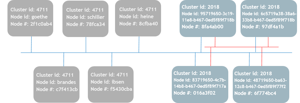 Two interconnected, but totally separate TIPC clusters.